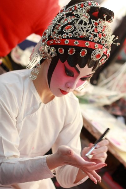 小旦的頭飾與化妝